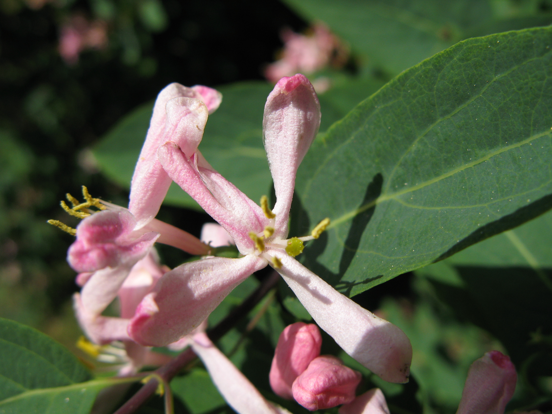 Lonicera sp. for identification in Bloom Clock at